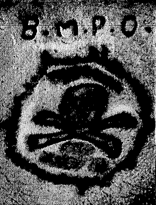 Picture of Vlado Cernozemski's dead body's tattoo in Marceille, France, depicting the abbreviature of the Internal Macedonian Revolutionary Organization in Bulgarian: VMRO.